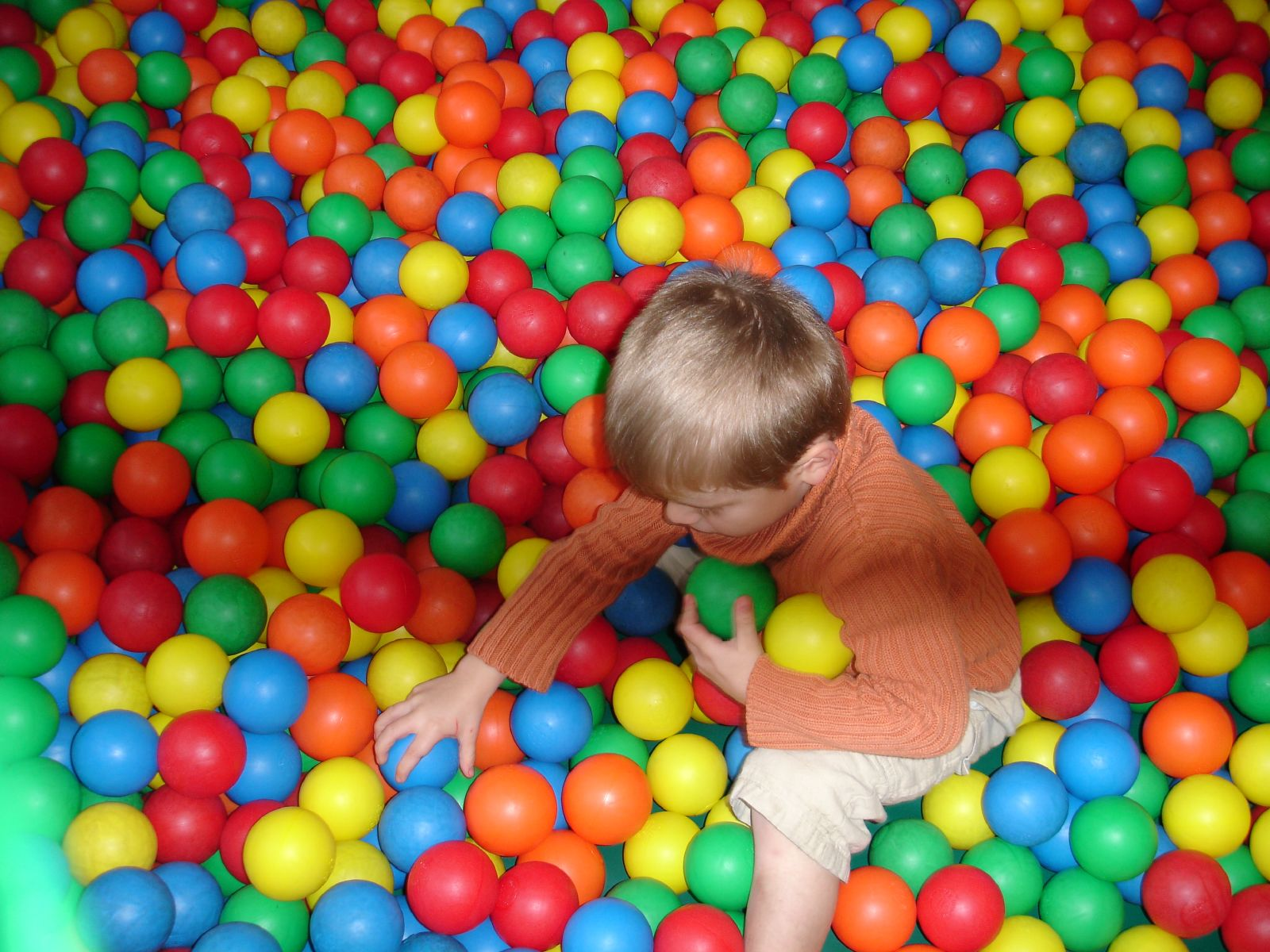 Boy playing with multi-coloured plastic balls at a McDonald's in Val-d'Oise , Ile-de-France. See also the balls from a child's perspective.